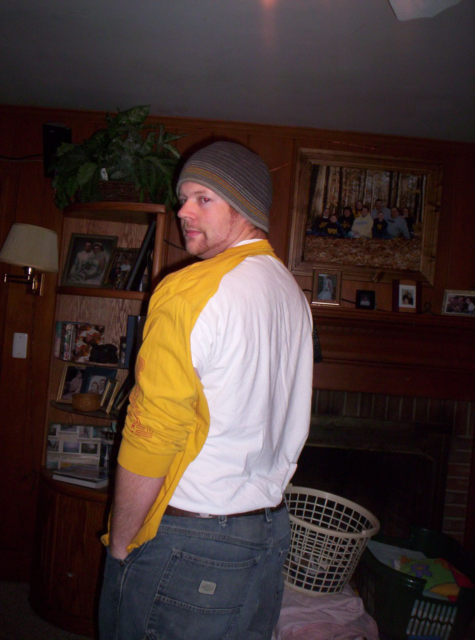 This is a picture, of a student pilot, who after there first solo had the back of there shirt cut off as part of the tradition.